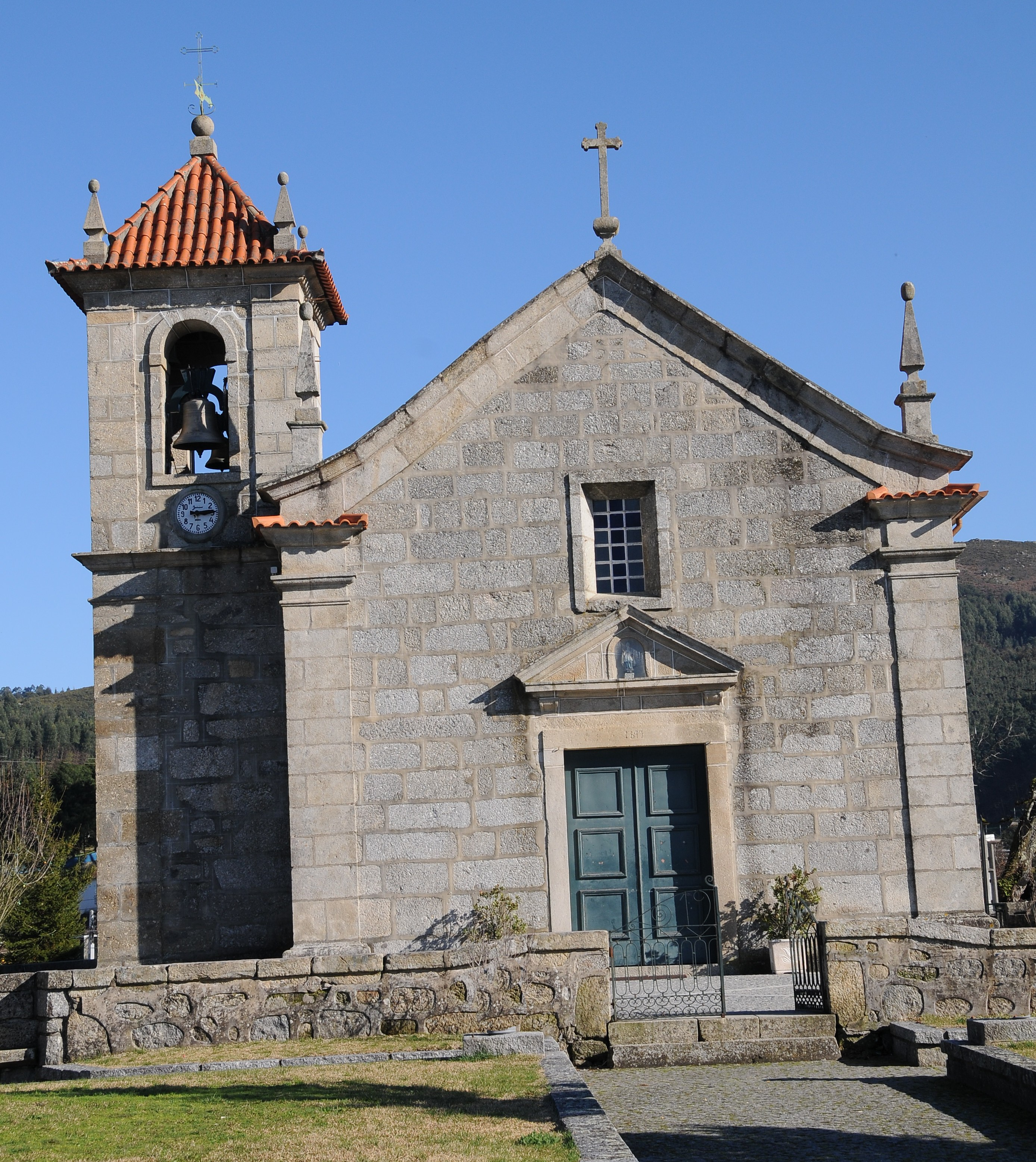 Monsul Church in Povoa de Lanhoso Portugal